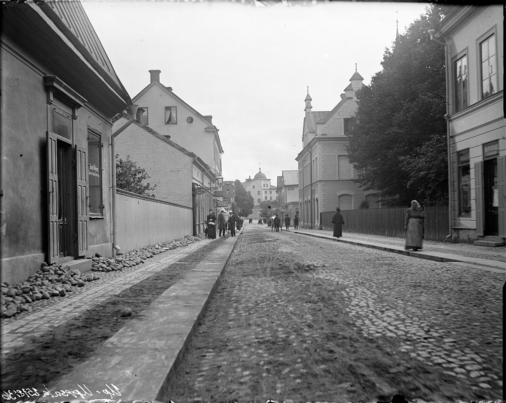 View from S:t Persgatan street in Uppsala towards the building Gillbergska huset and the tower of the building Domtrapphuset in center background. Format: Glass plate negative